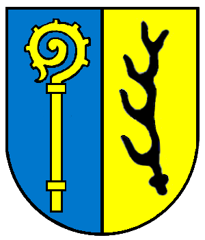 Coat of arms of Söhnstetten in Steinheim am Albuch